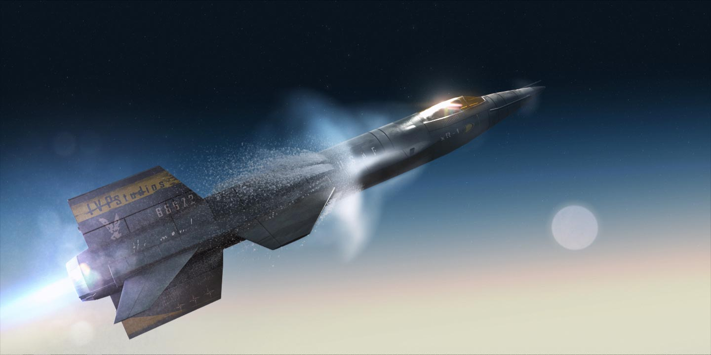 Composited Render image created by Iskánder Vigoa Pérez